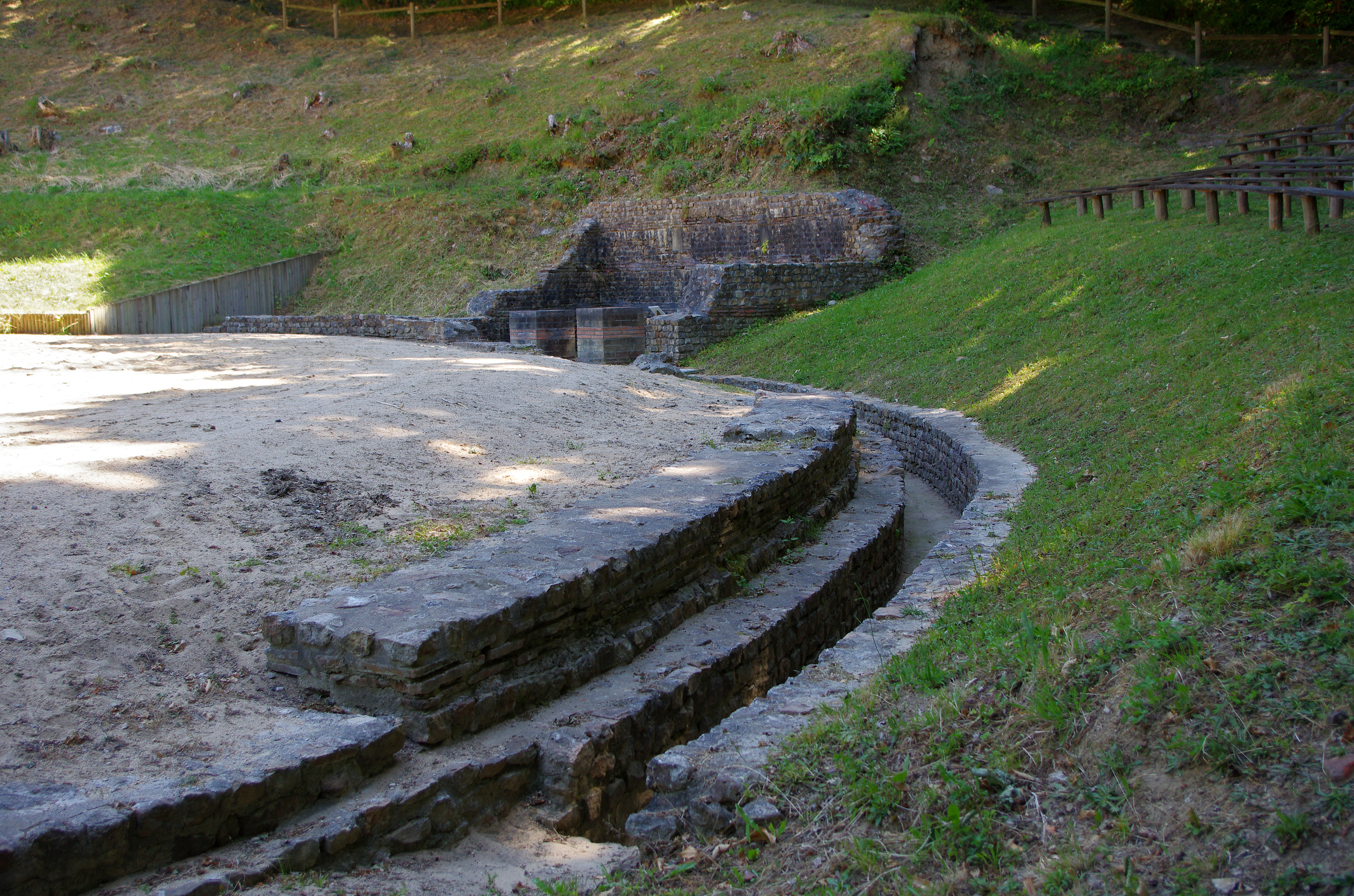 Amphitheatre Gallo-Romain of Gennes (Maine-et-Loire). This is a semi amphitheater backs onto the hill of Mazerolles south of the town of Gennes. Recent excavations indicate that this amphitheater built in the late 1st century was used until the early third century (as indicated movable Elements, coins and pottery, find yourself). Euripus (channel rainwater collector) paved with terra cotta was covered with a wooden floor.